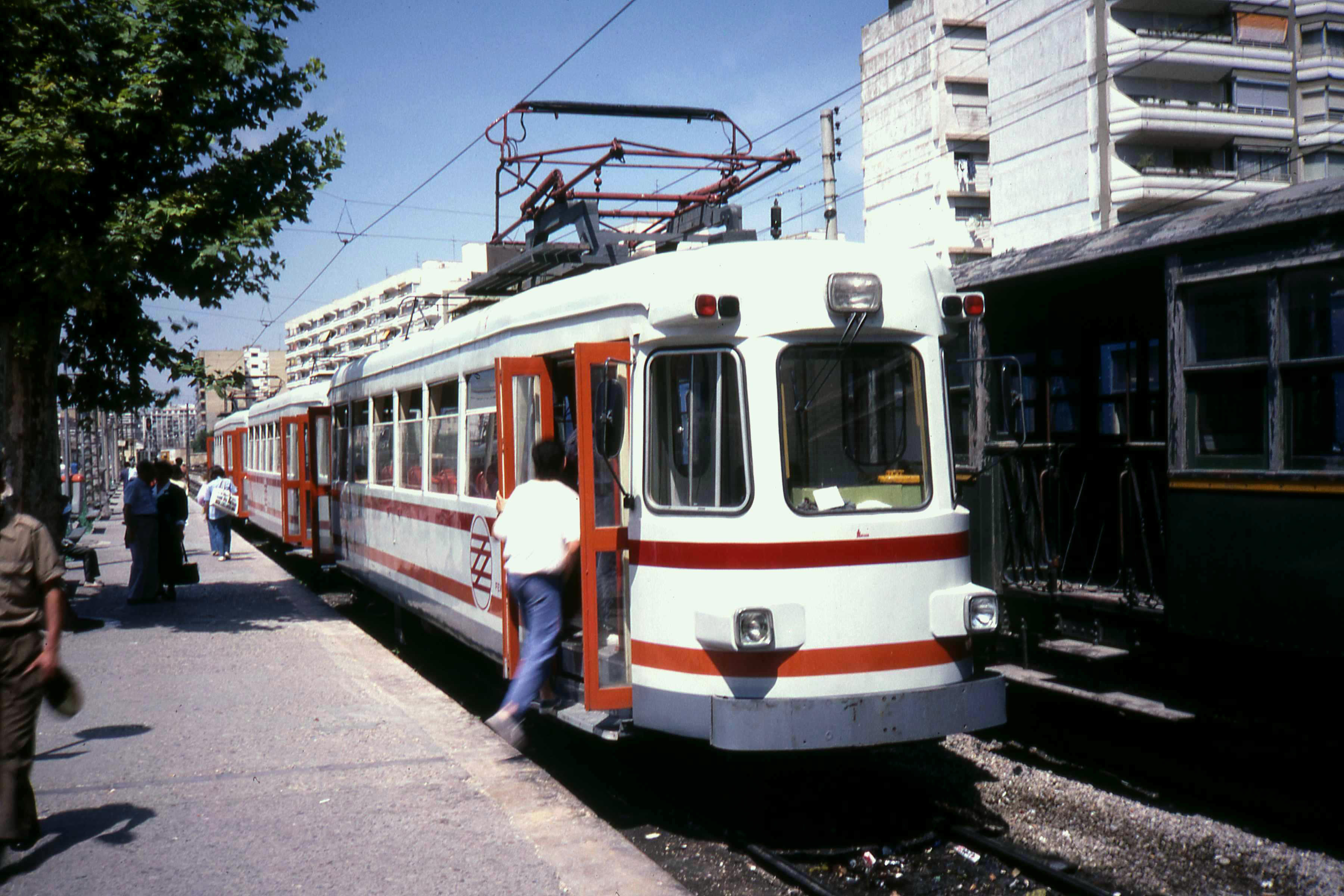 Ex vicinal Belgium railway trams (type S), sold to the FEVE and modified for the Valencia network. It is a standard combination with motorcars at the end and a trailer in the middle. Called Type FGV 3400 in Spain. Picture taken in "Pont de Fusta" station.